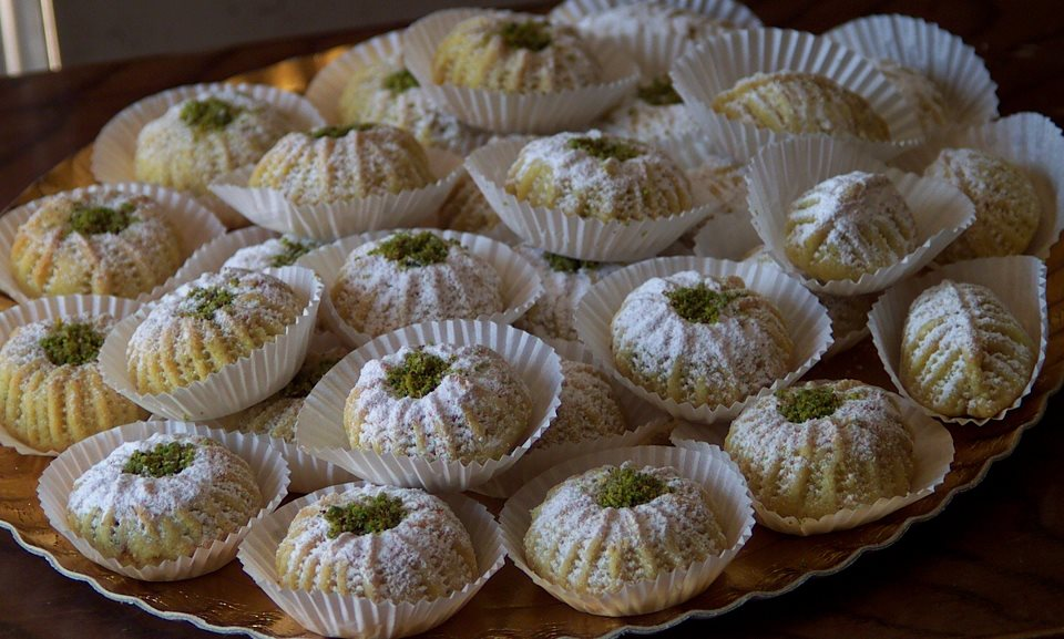 Economy of Israel